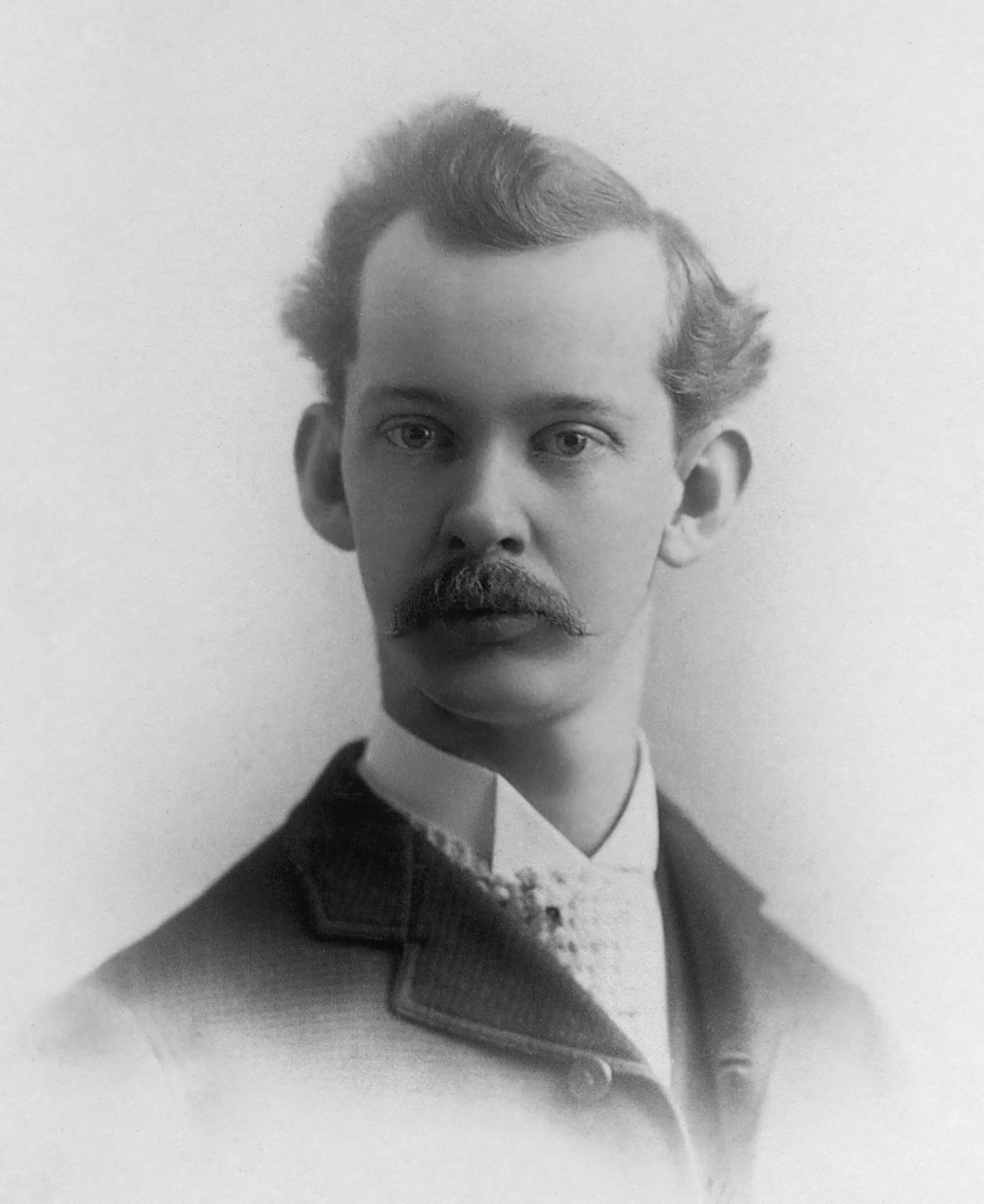 Wilbur Scovillewas a professor at the Massachusetts College of Pharmacy and Health Sciences before working for Parke Davis, Boston, Massachusetts